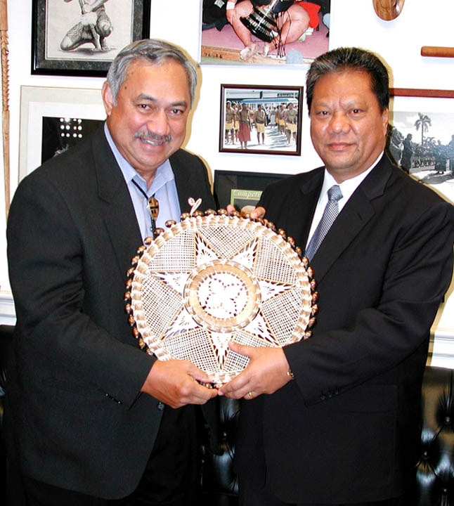 U.S. Congressman Delegate Eni Faleomavaega (D-American Samoa) and former President of the Marshall Islands Kessai Note in Washington D.C.